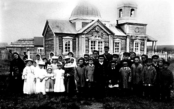 Pupils of Gizhiginsk